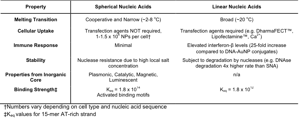 Adapted from Cutler, J. I., et al., Spherical Nucleic Acids. J Am Chem Soc 2012, 134 (3), 1376-1391. Copyright 2012 American Chemical Society.